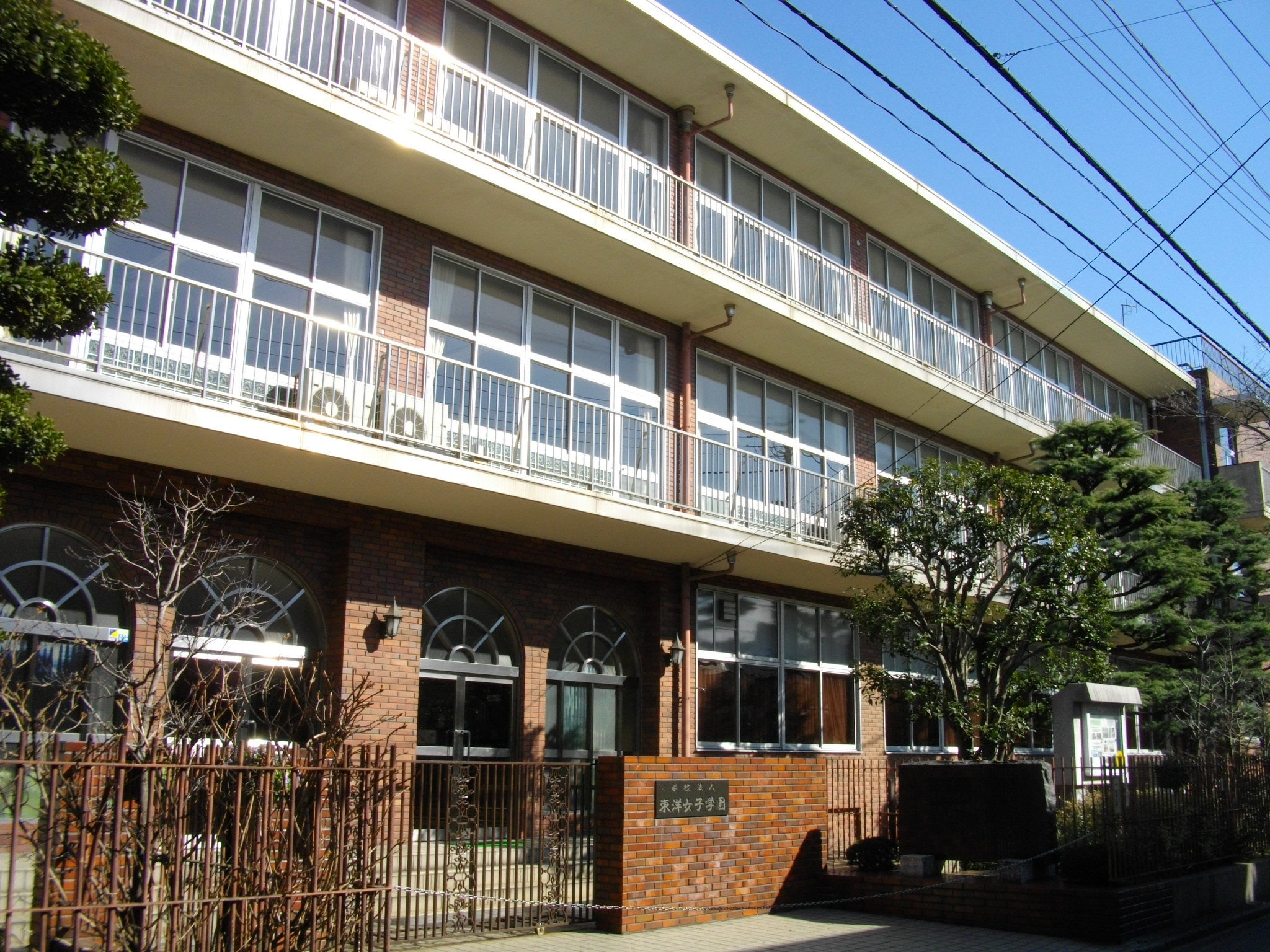 Toyojoshi Senior High School